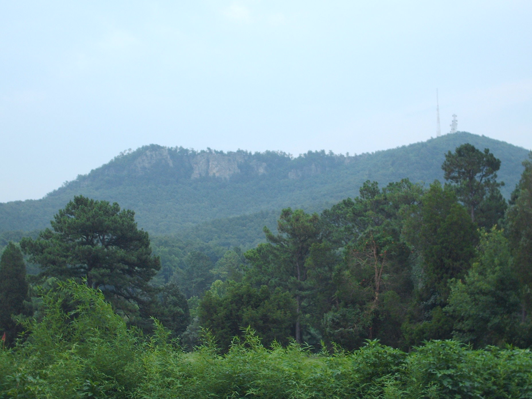 Picture of Crowders Mountain taken in July 2007